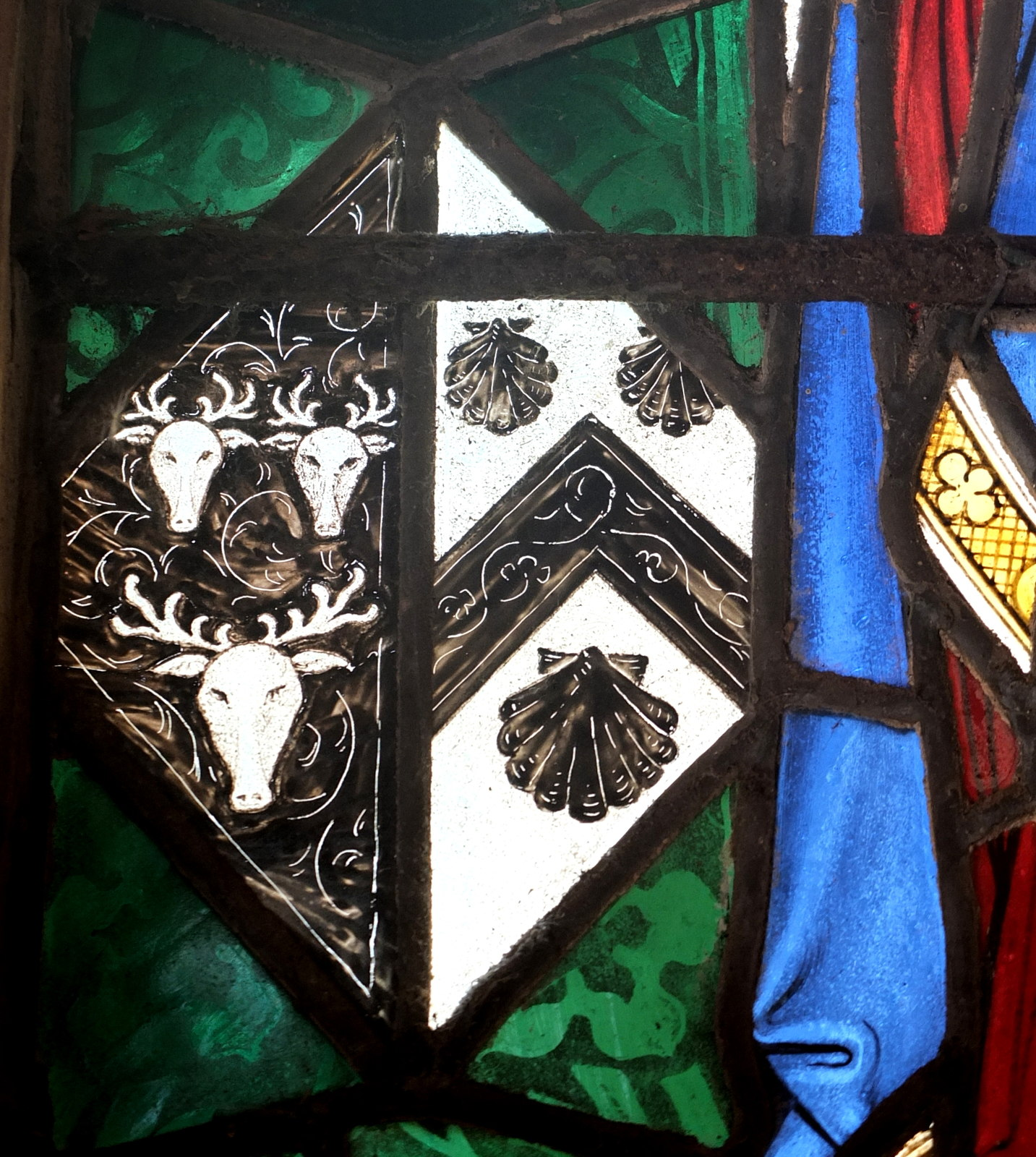 Unusual rendering of a hatchment in stained glass in the porch of St Deiniol's Church, Hawarden, Flintshire, Wales. Cavendish impaling Lyttleton. Lord Frederick Cavendish was the son of William Cavendish, 7th Duke of Devonshire and a younger brother of Spencer Compton, 8th Duke of Devonshire. On 7 June 1864 he married Lucy Lyttelton (d.1925), the daughter of 4th Baron Lyttelton.